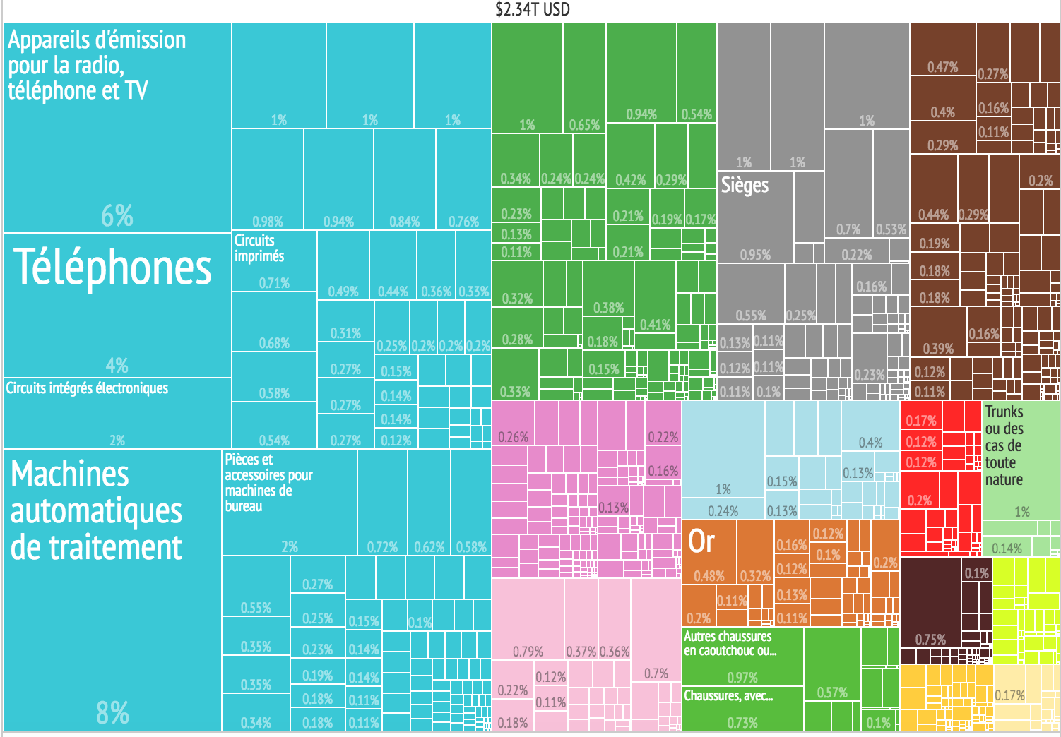 2014 produits la chine exports treemap